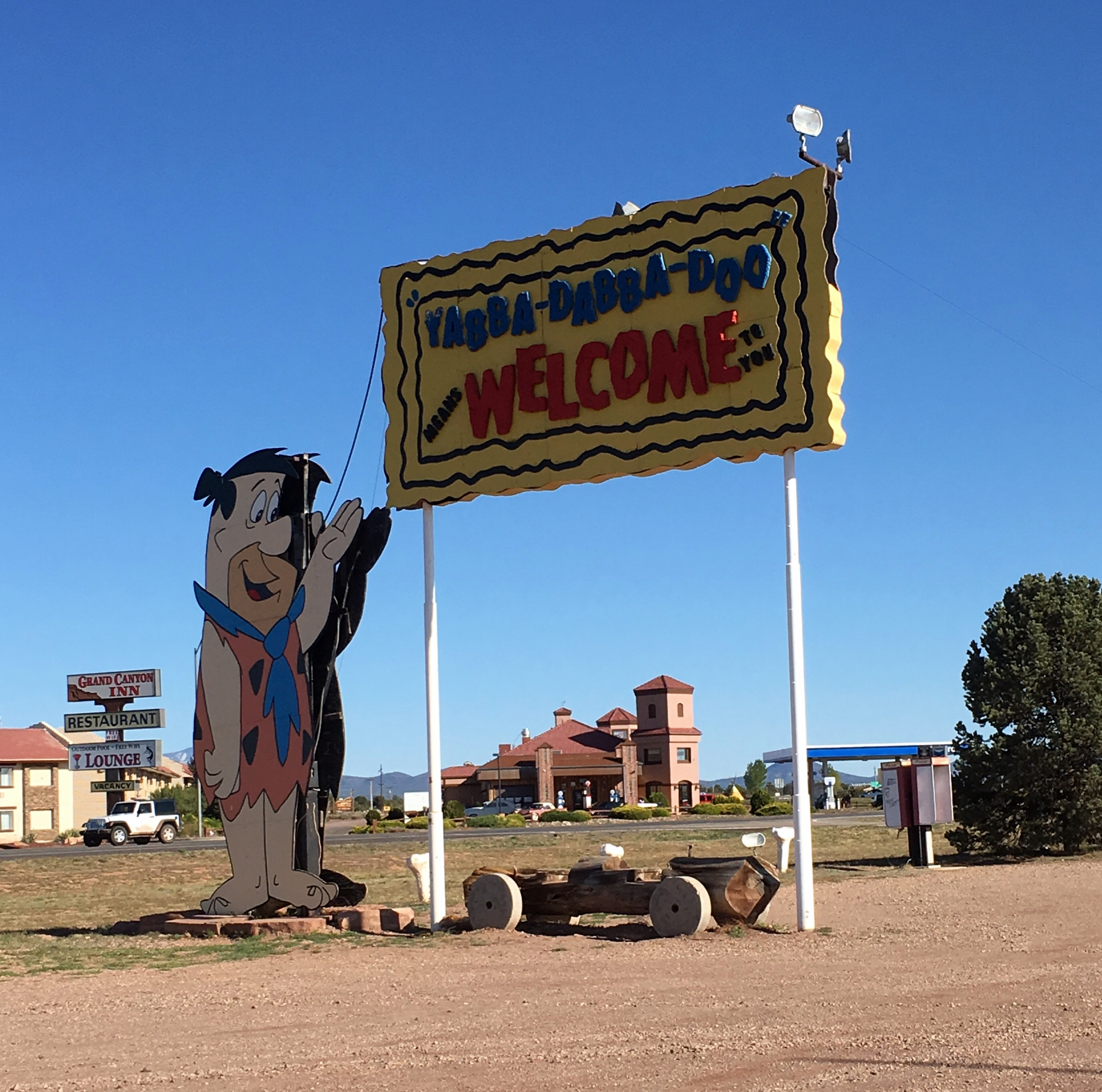 Williams - Bedrock City - Yabba-Dabba-Doo Welcome Sign